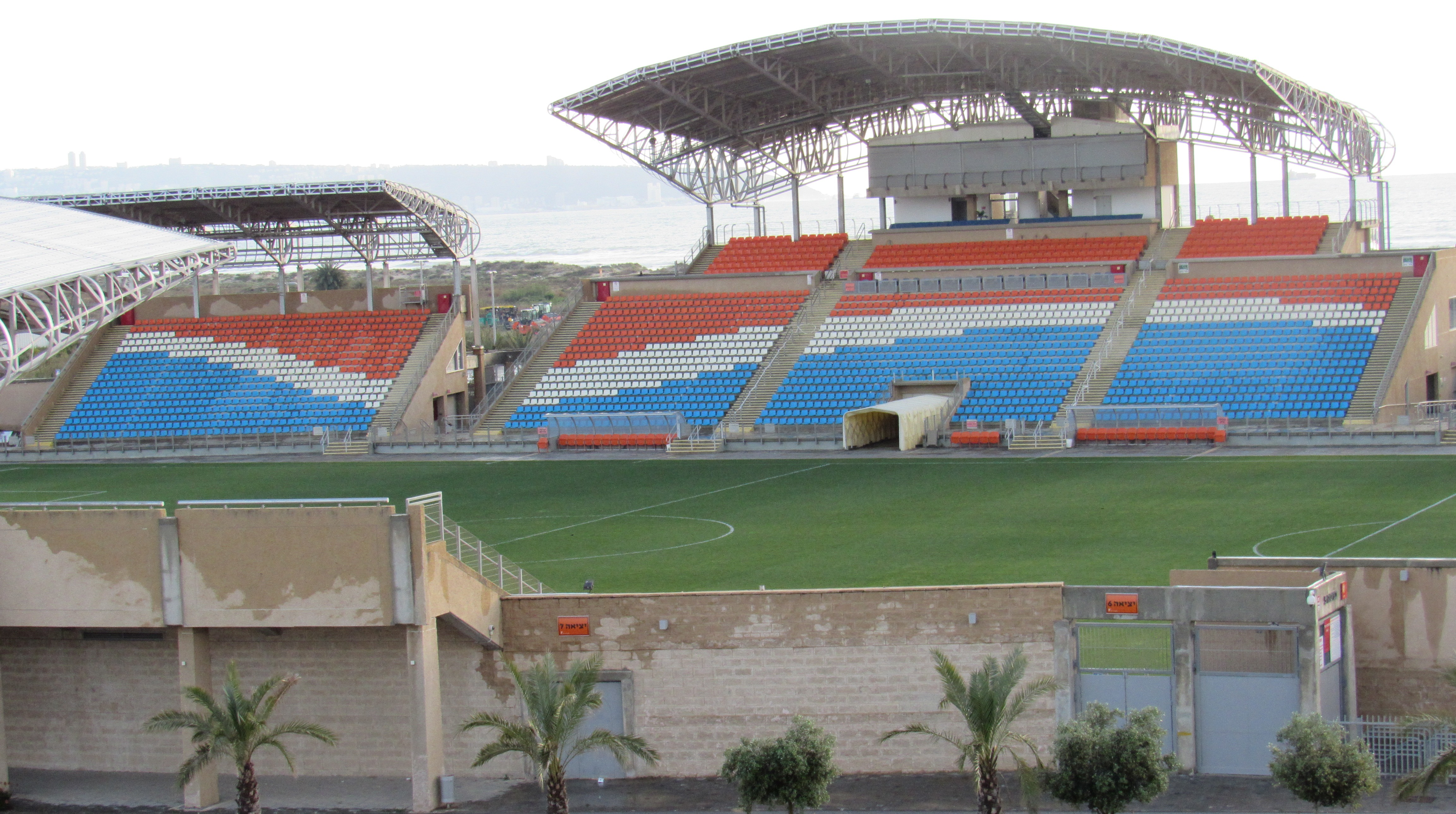 Acre Municipal Stadium (11 April,2015).XIII